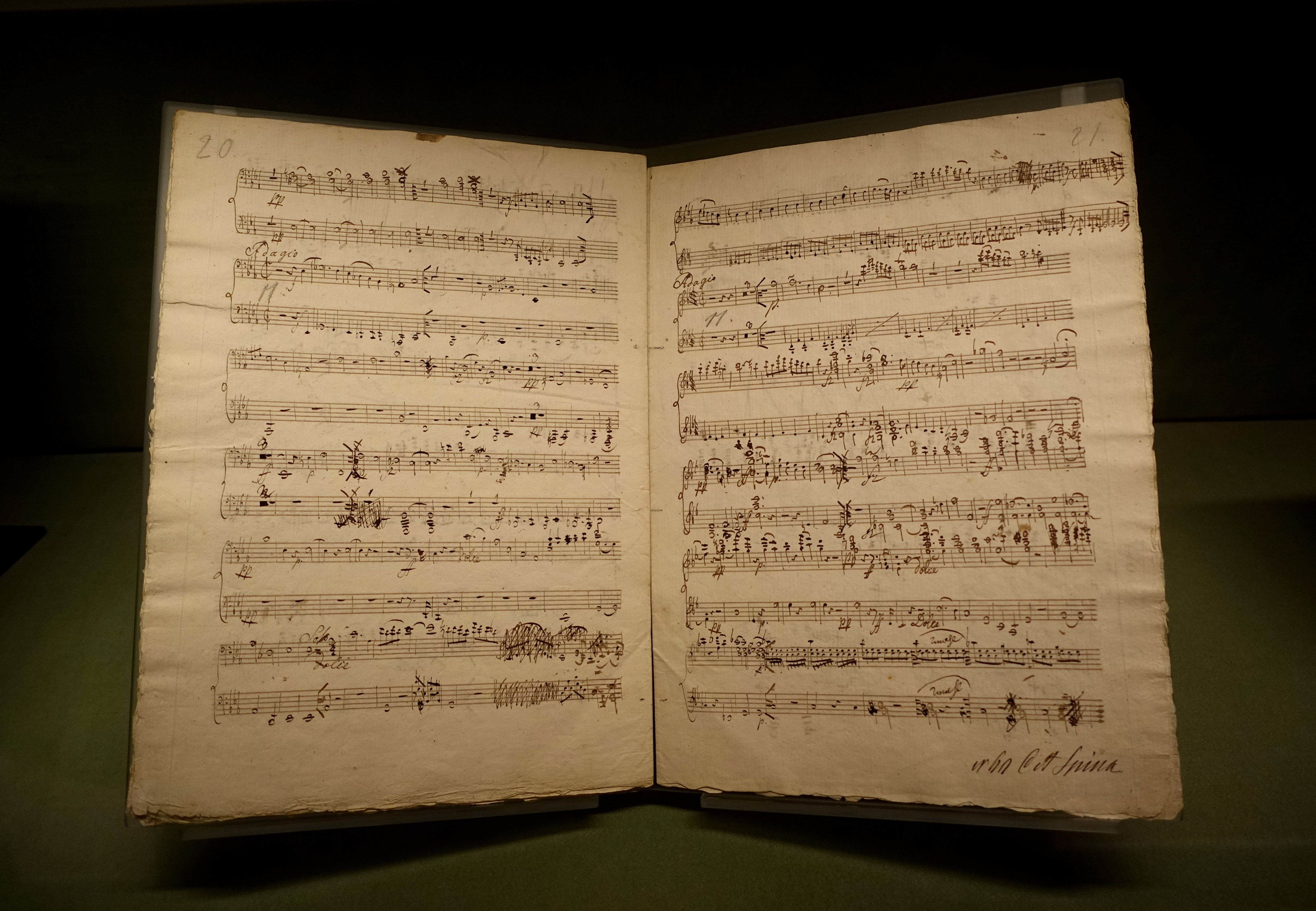 Exhibit in the Morgan Library & Museum - New York City, New York, USA.